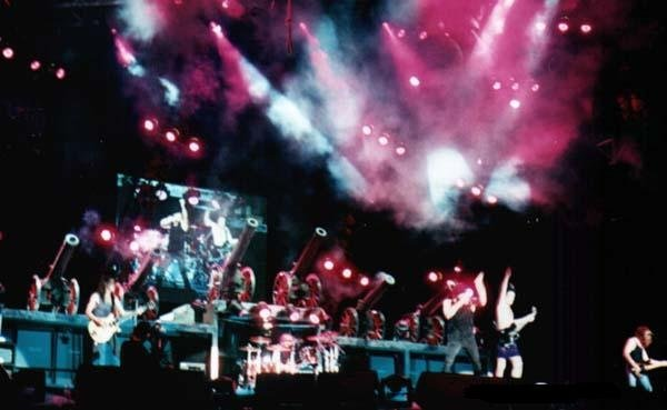 a image of the concert of ac/dc in chile